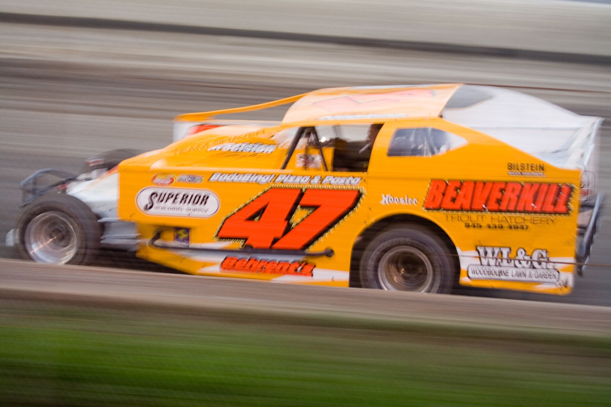 Orange County Speedway, Big Block Modified No. 47.